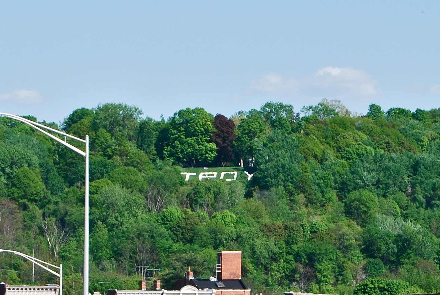 "Troy" spelled out in large, white, concrete blocks in Prospect Park in Troy, New York, United States